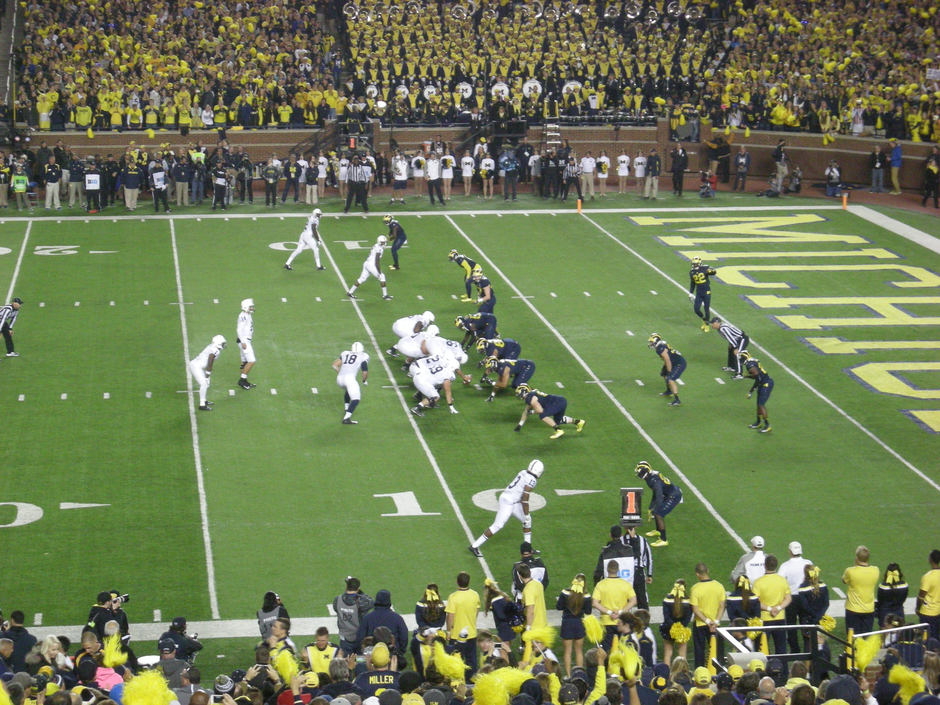 Penn State on offense during the Penn State Nittany Lions vs. Michigan Wolverines football game at Michigan Stadium in Ann Arbor, Michigan (United States). Michigan won 18–13.